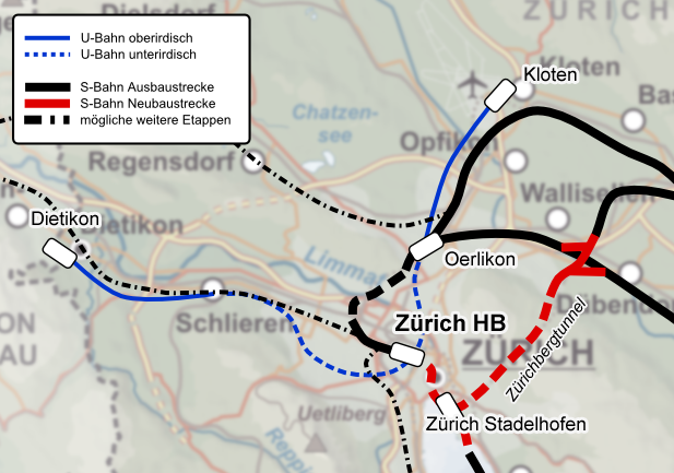 Map of U- and S-Bahn Zürich